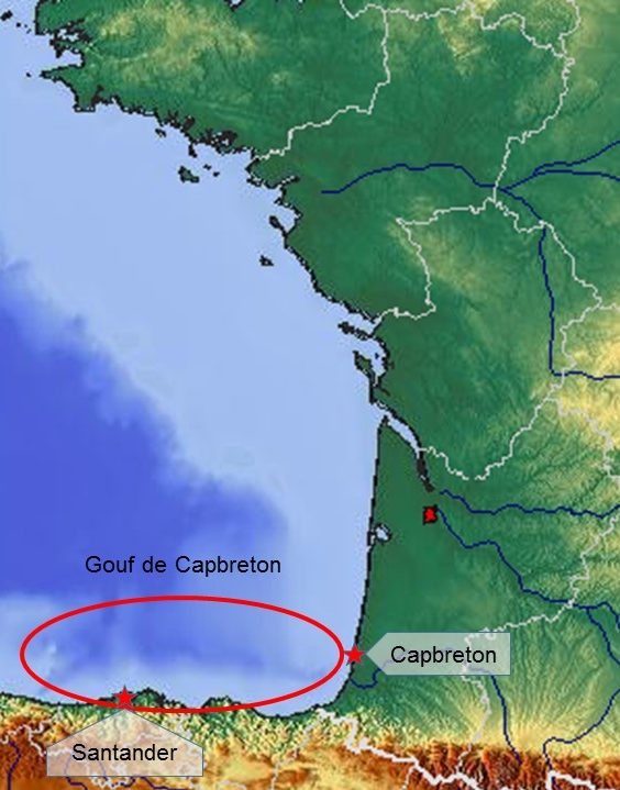 The gouf of Capbreton on a map of the Biscaye bay.